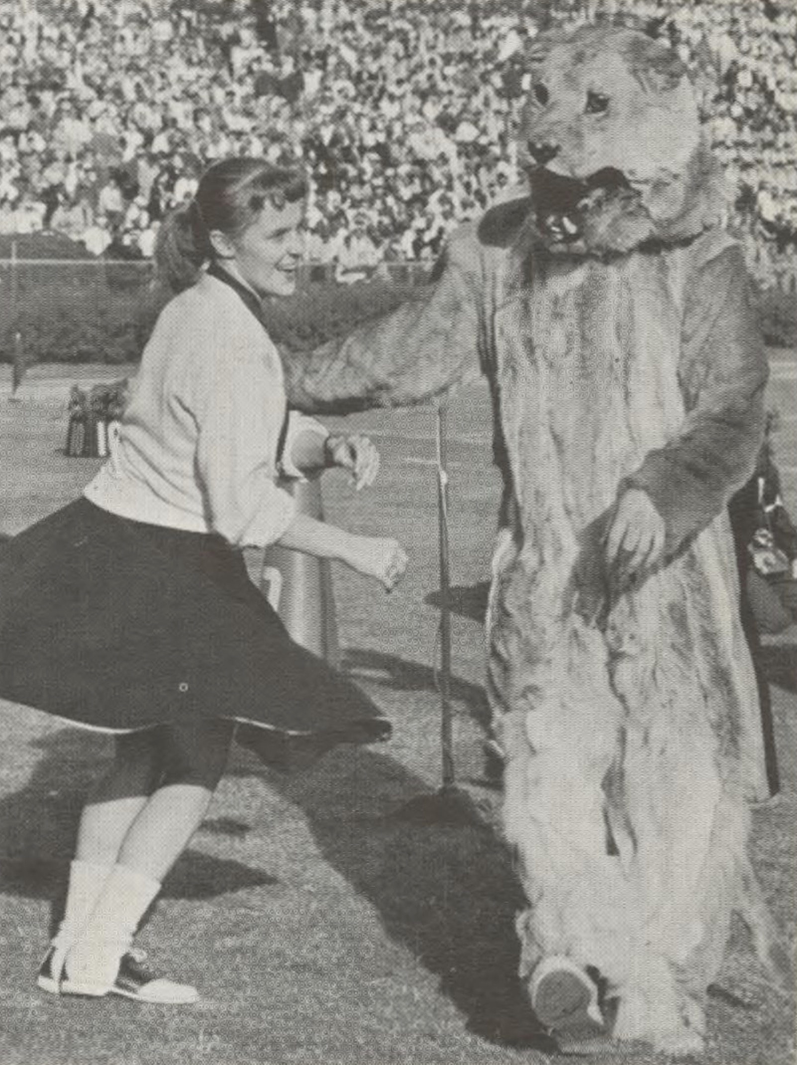 Cheerleader and mascot at 1956 Sugar Bowl, Tulane Stadium, New Orleans. "Dodo Tear and the Pitt Panther "rock and roll" before Sugar Bowl crowd at New Orleans."